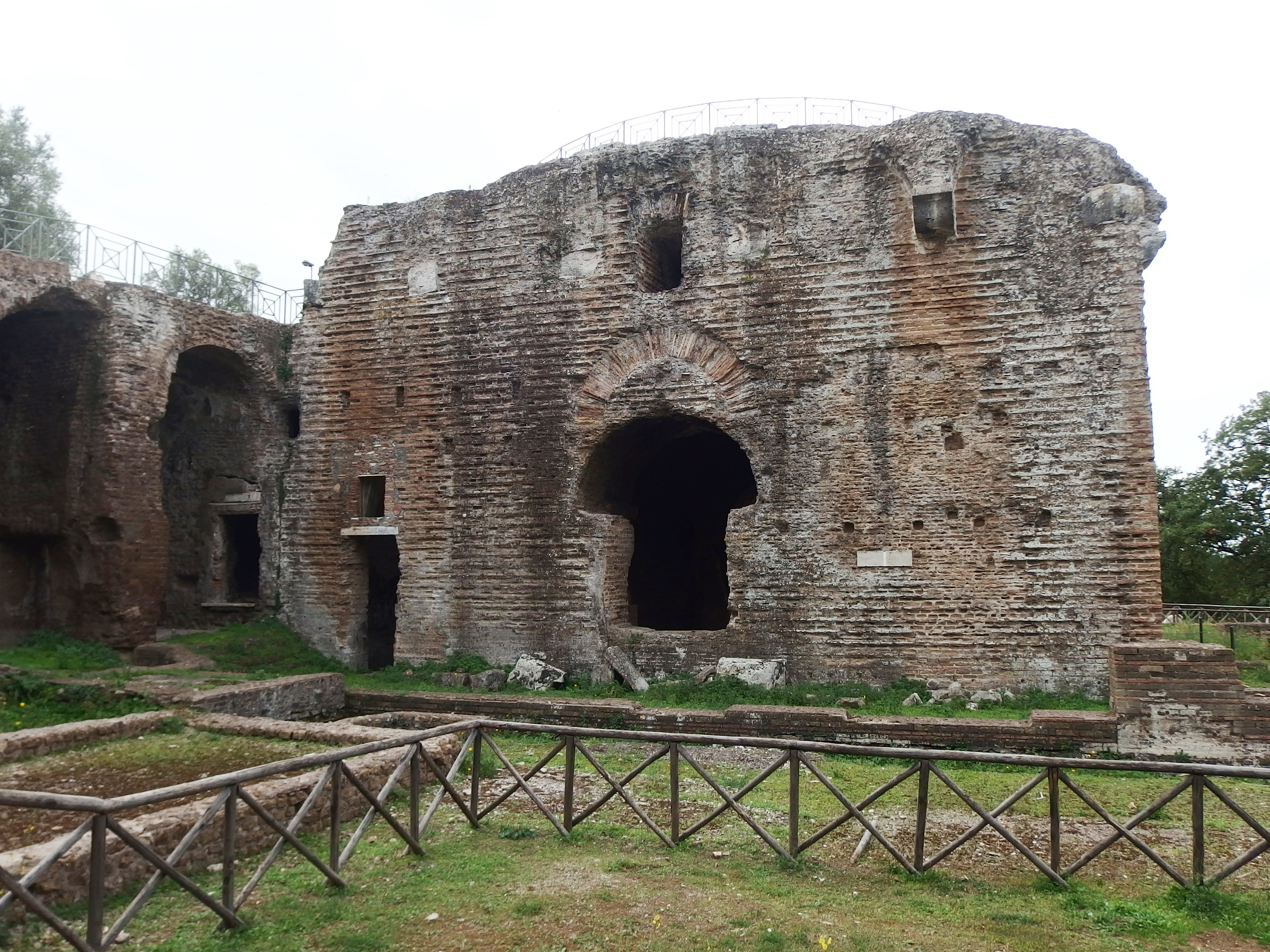 Tivoli, Italy. Hadrian's Villa.